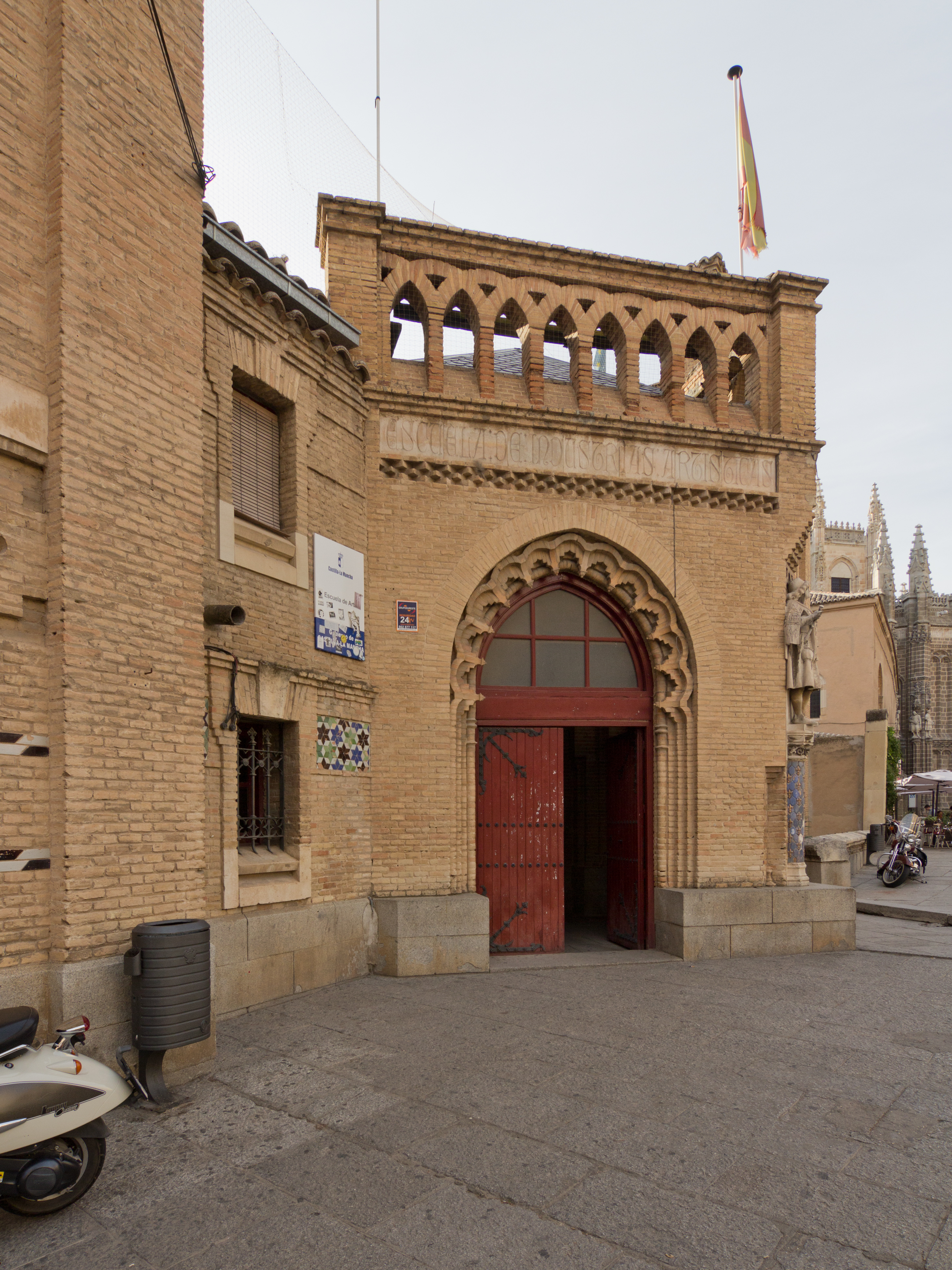 School of Arts and Artistic Professions, Toledo, Spain.